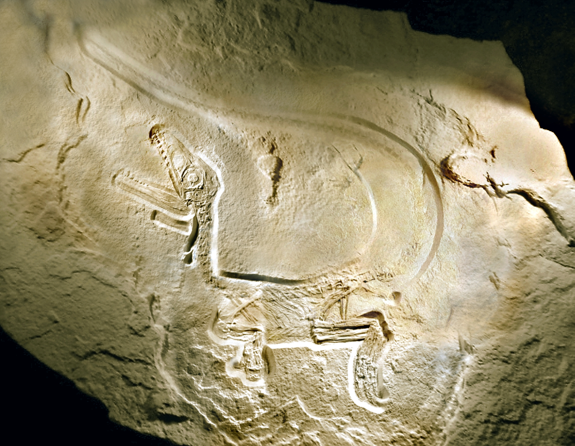 Fossil theropod (gen. nov. sp. nov.) from the plattenkalk of Peinten, Germany.